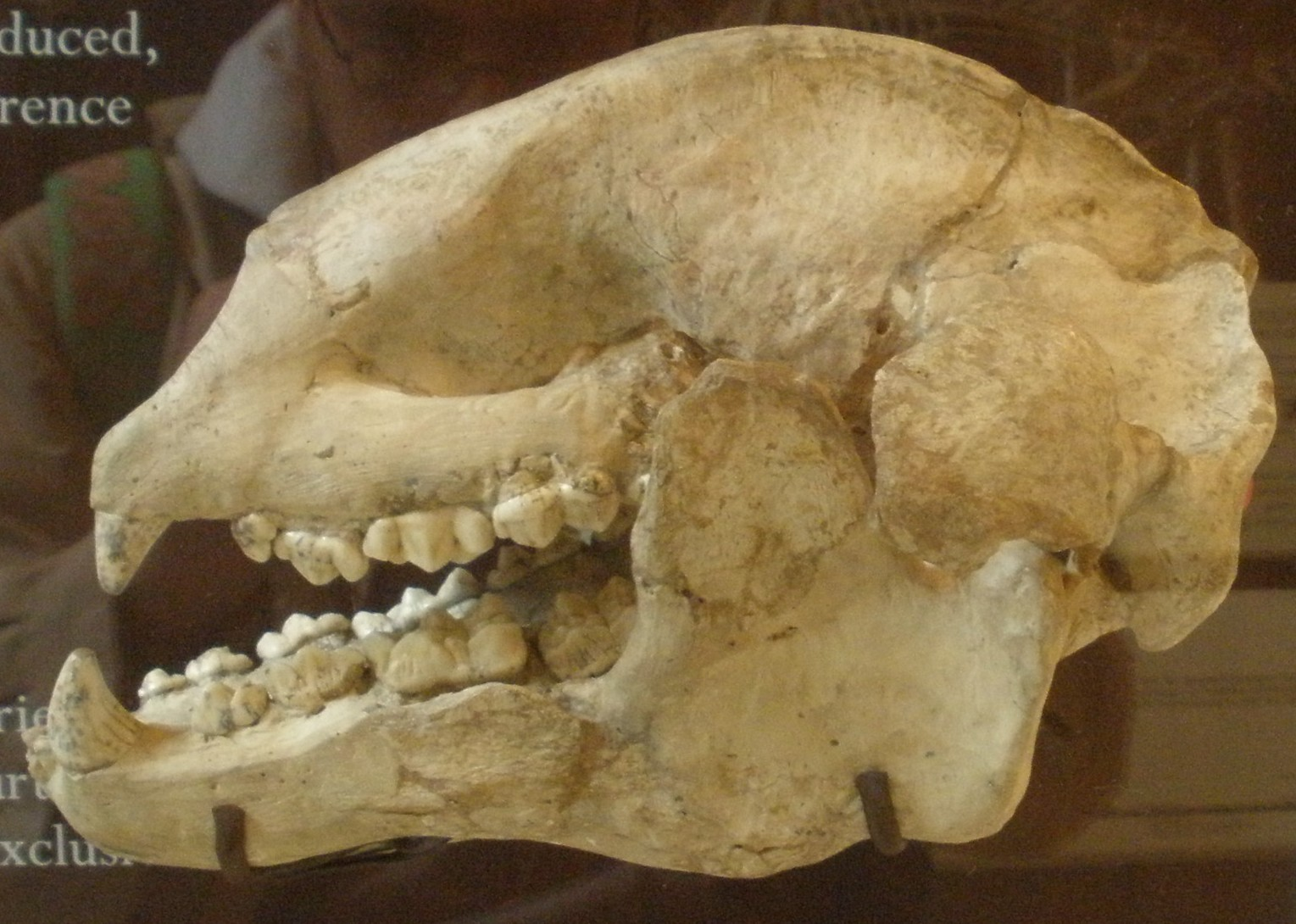 Skull of Ailuropoda fovealis, a fossil panda